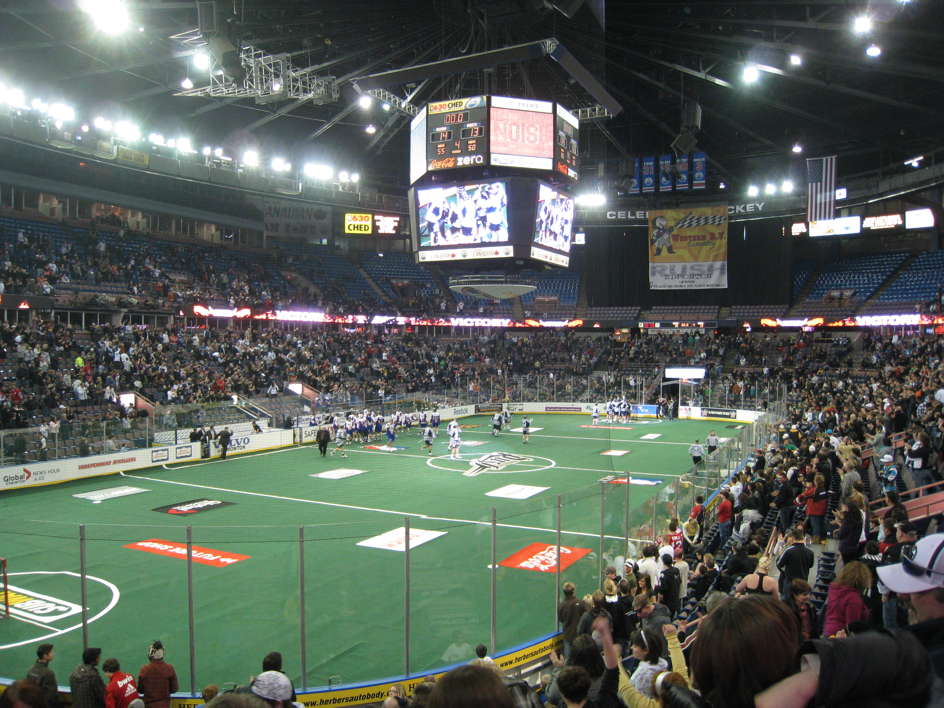 Edmonton Rush vs. Toronto Rock